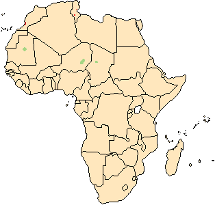 Range update (03 2015) on the basis of IUCN map (Green = Extant (resident); Red = Reintroduced))